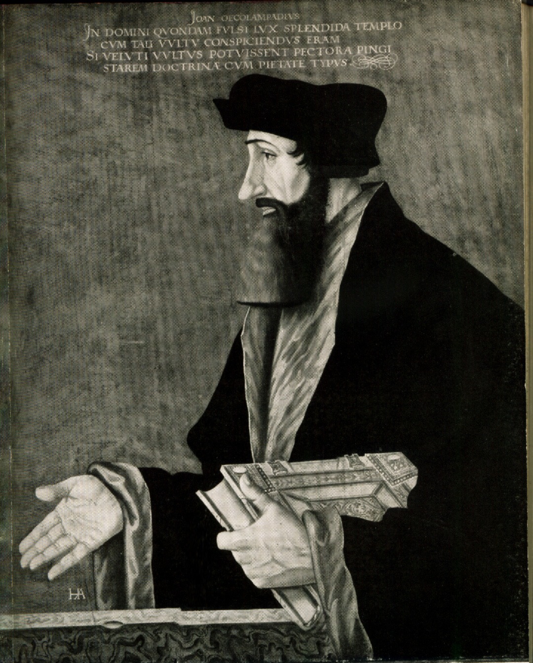 Portrait of Johannes Oecolampadius by Hans Asper (1499-1571)